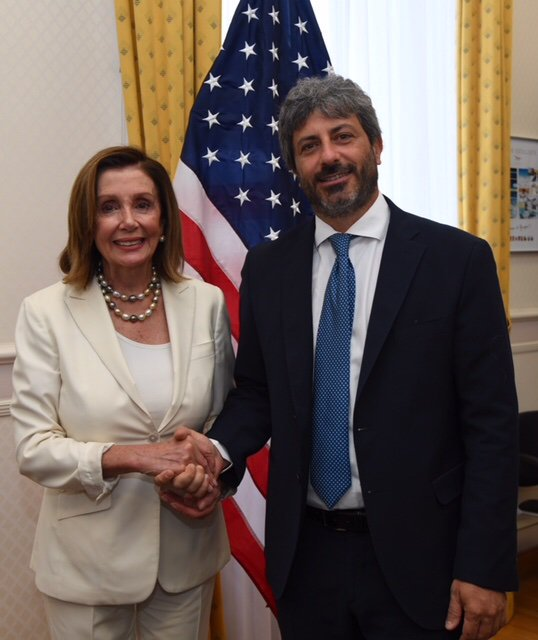 It was a pleasure to meet with President Roberto Fico of the Italian Chamber of Deputies today at G7 Parlement to discuss U.S.-Italy relations and how the climate crisis is a national security issue for us all.